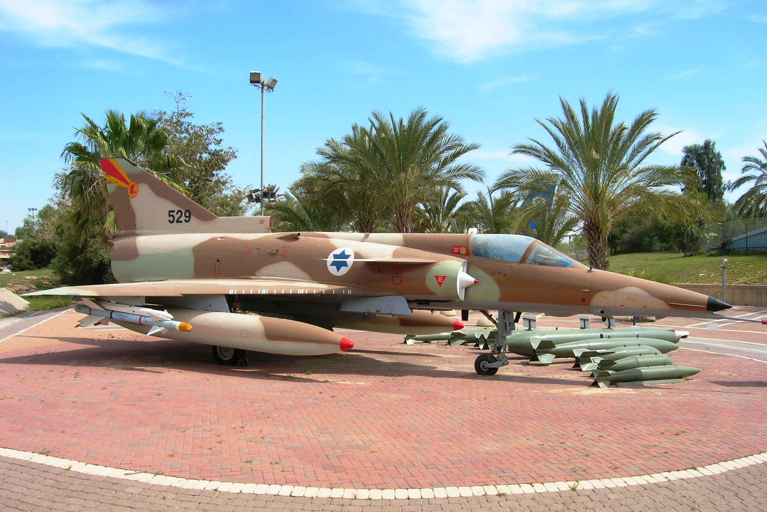 Hebrew Name: Kfir (Lion Cub) כפיר Source